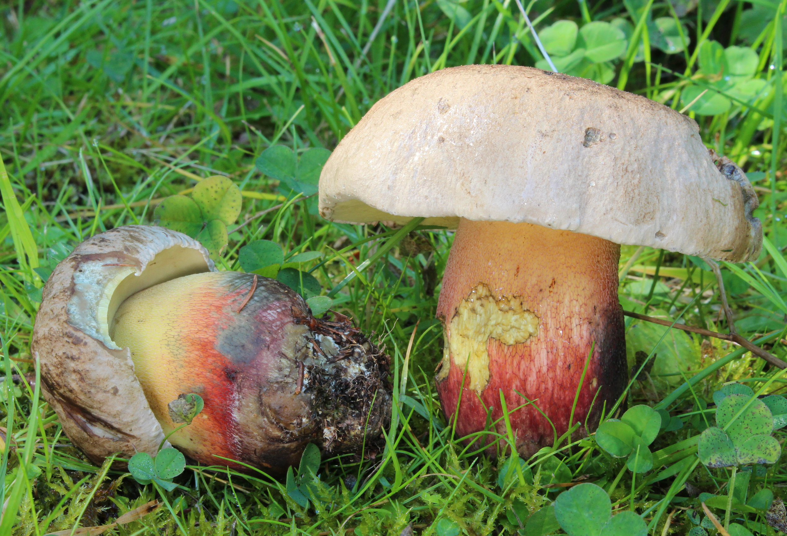 Bitter Beech Bolete or Scarlet-Stemmed Bolete, Boletus calopus, Family: Boletaceae, Location: Germany, Oberstaufen